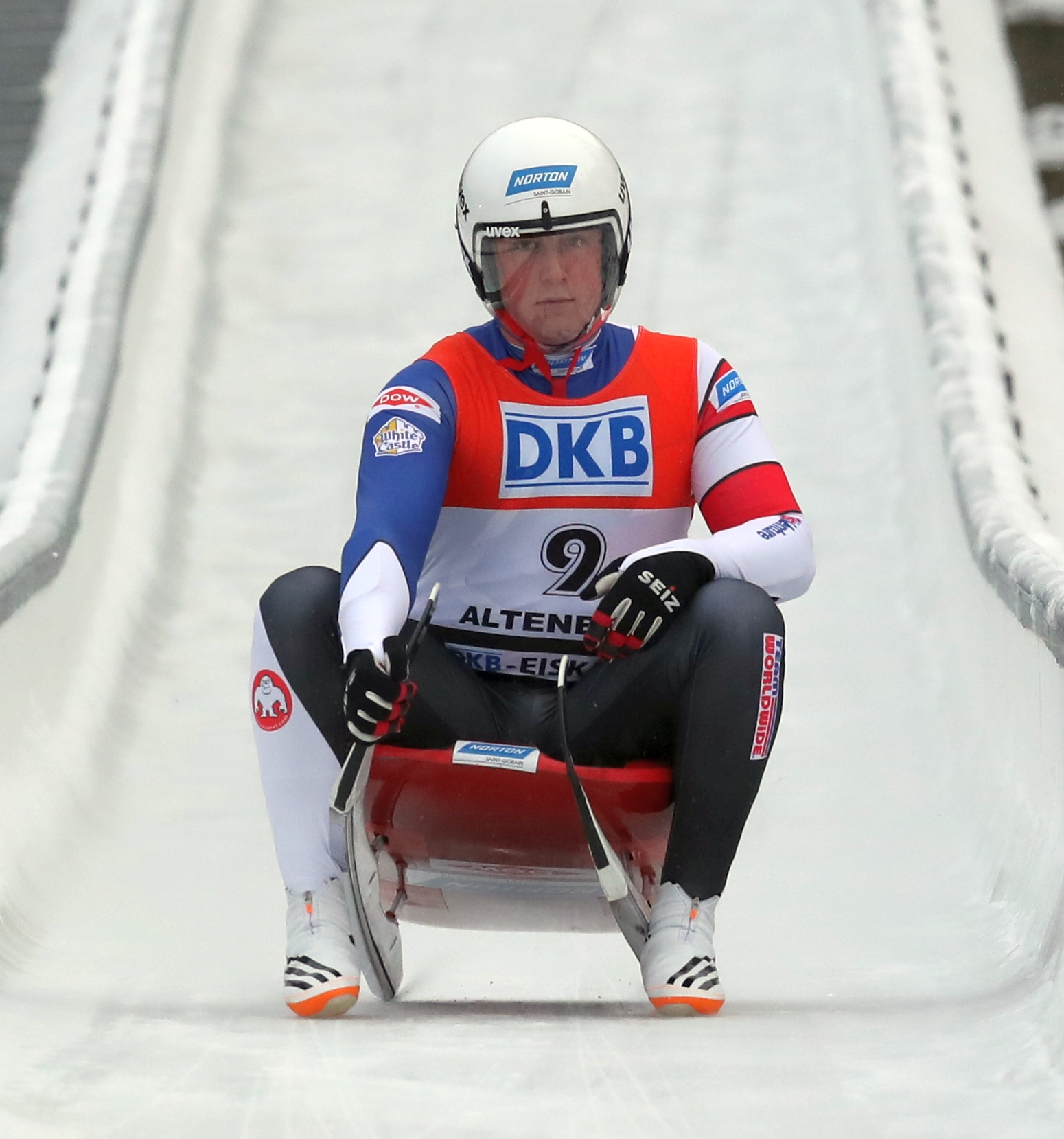 Taylor Cloy Morris (USA) at the men's Nationscup race in Altenberg